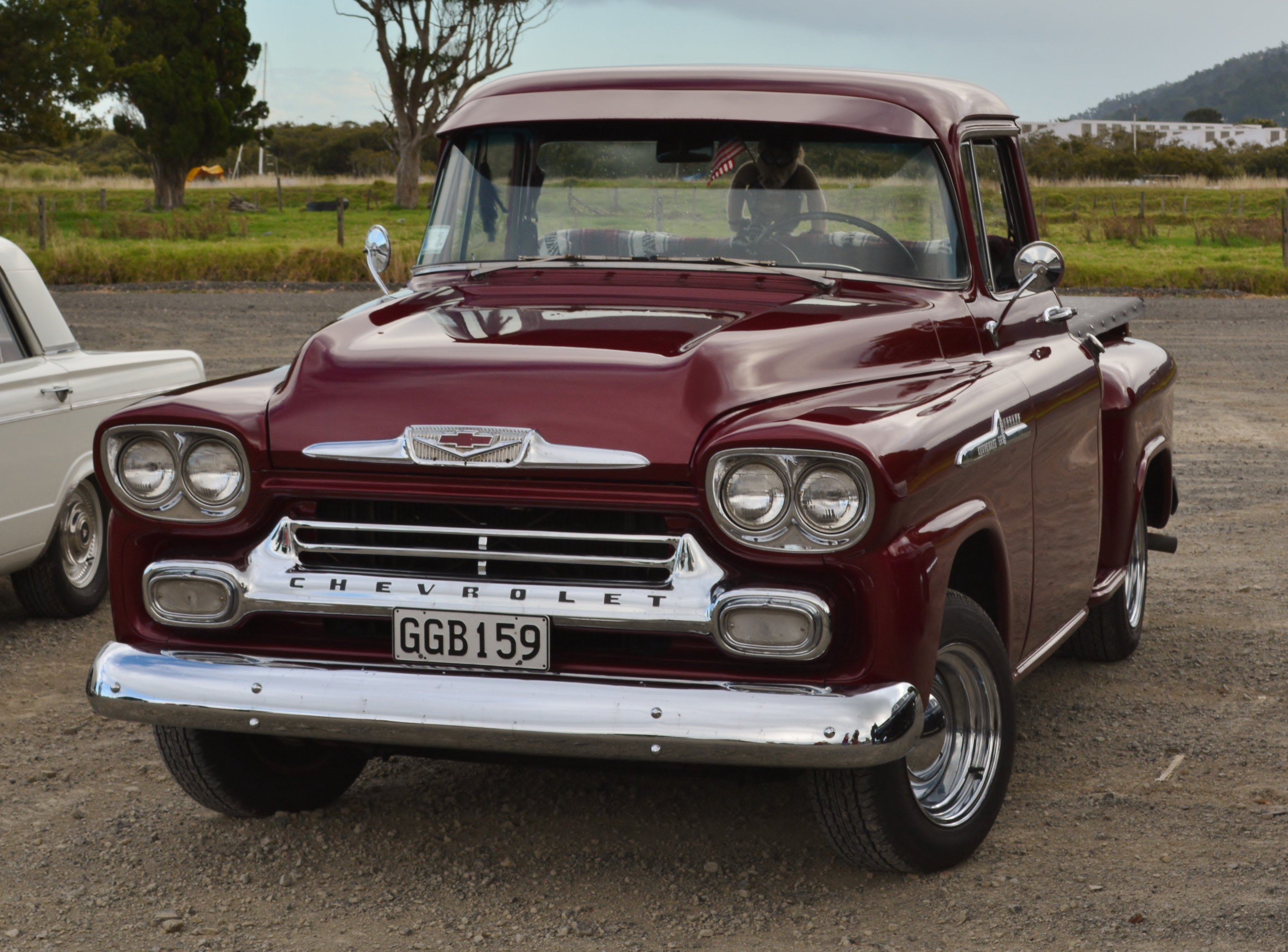 Thames New Zealand